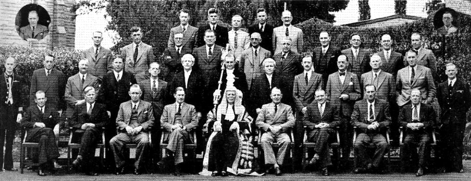 Official photograph of the seventh Southern Rhodesian Legislative Assembly in 1948. Photographer not recorded. Insets (l-r): G A Davenport; W H Eastwood (elected to replace A M F Stuart, who died soon after the photograph was taken) Back row: Ian Smith; Garfield Todd; B A Barker; Julian Greenfield; Desmond Lardner-Burke Third row: N G Barrett; Humphrey Gibbs; L J Smith; H A Holmes; G Munro; D Macintyre; W A E Winterton; L M N Hodson; A M F Stuart; P A Wise Second row: H Hampton (chief messenger); L M Cullinan; G H Hackwill; J R Dendy-Young; T Titley-Haworth (librarian); C C D Ferris (clerk of the House); E Grant-Dalton (sergeant-at-arms); Lt-Col G E Wells (clerk assistant); L J Howe-Ely (committee clerk); N St. Quintin; R A Ballantyne; J M Caldicott; L Ruile (assistant messenger) Front row: Raymond Stockil; Edgar Whitehead; P B Fletcher; Sir Godfrey Huggins; Sir Allan Welsh (speaker); T I F Wilson; Hugh Beadle; R F Halsted; L J V Keller